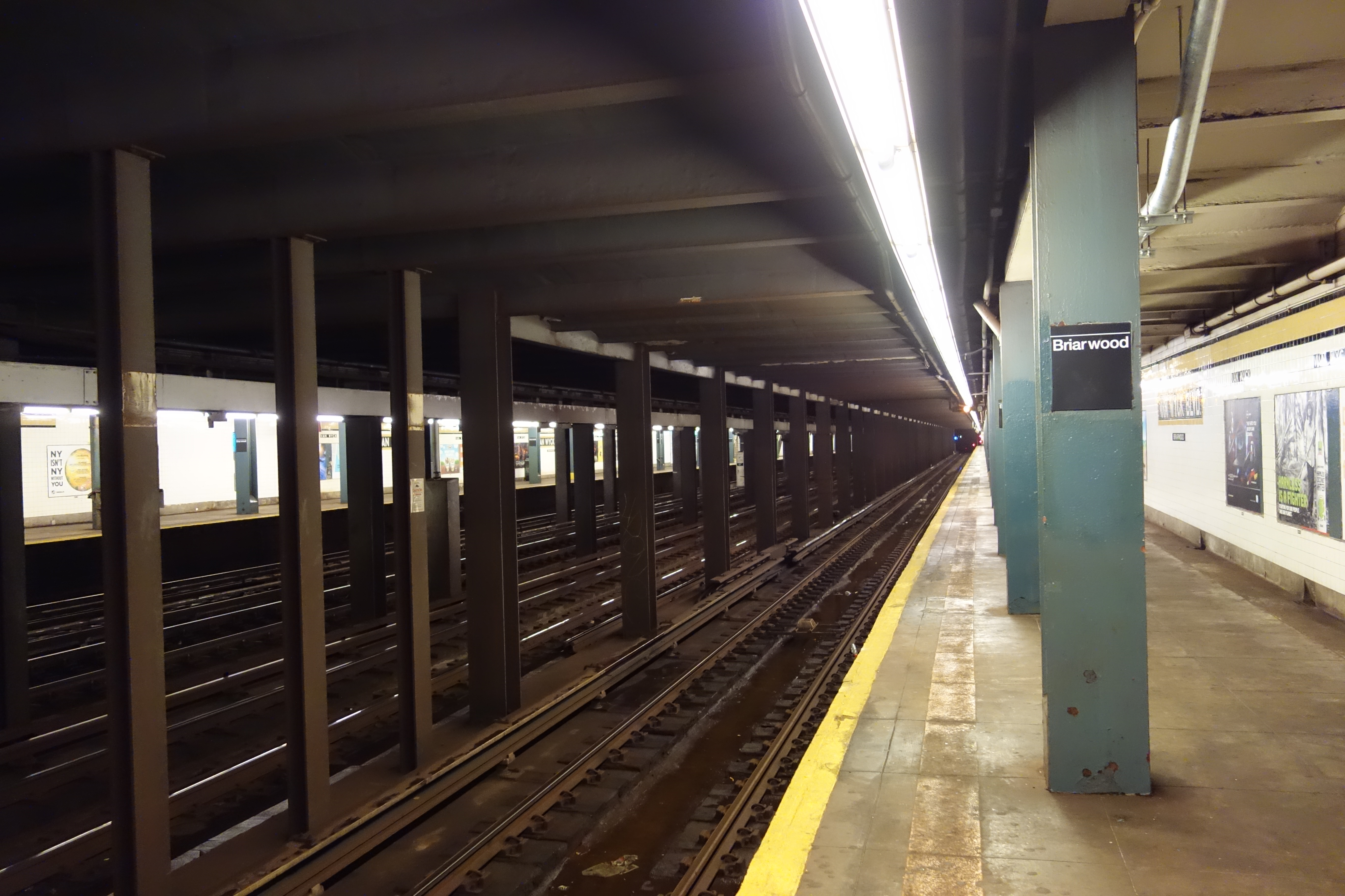 Looking south from the north (rear) end of the Jamaica-bound (eastbound) platform the Briarwood (Briarwood–Van Wyck) subway station in Briarwood, Queens. Note that the support beams in the center of the tracks transition from narrow and frequent to thick and widely-spaced farther south along the platform. This may be to support either the Van Wyck Expressway or Queens Boulevard crossing over the station, although it is hard to know for sure (without further research). The Van Wyck Boulevard subway station was opened in 1937, while the Van Wyck Expressway was constructed in the late 1940s and early 1950s. It is possible that the wider pillars were added to underpin the station at this time, although this is just conjecture. The narrow pillars are definitely original, as they have the remnants of original IND signage.